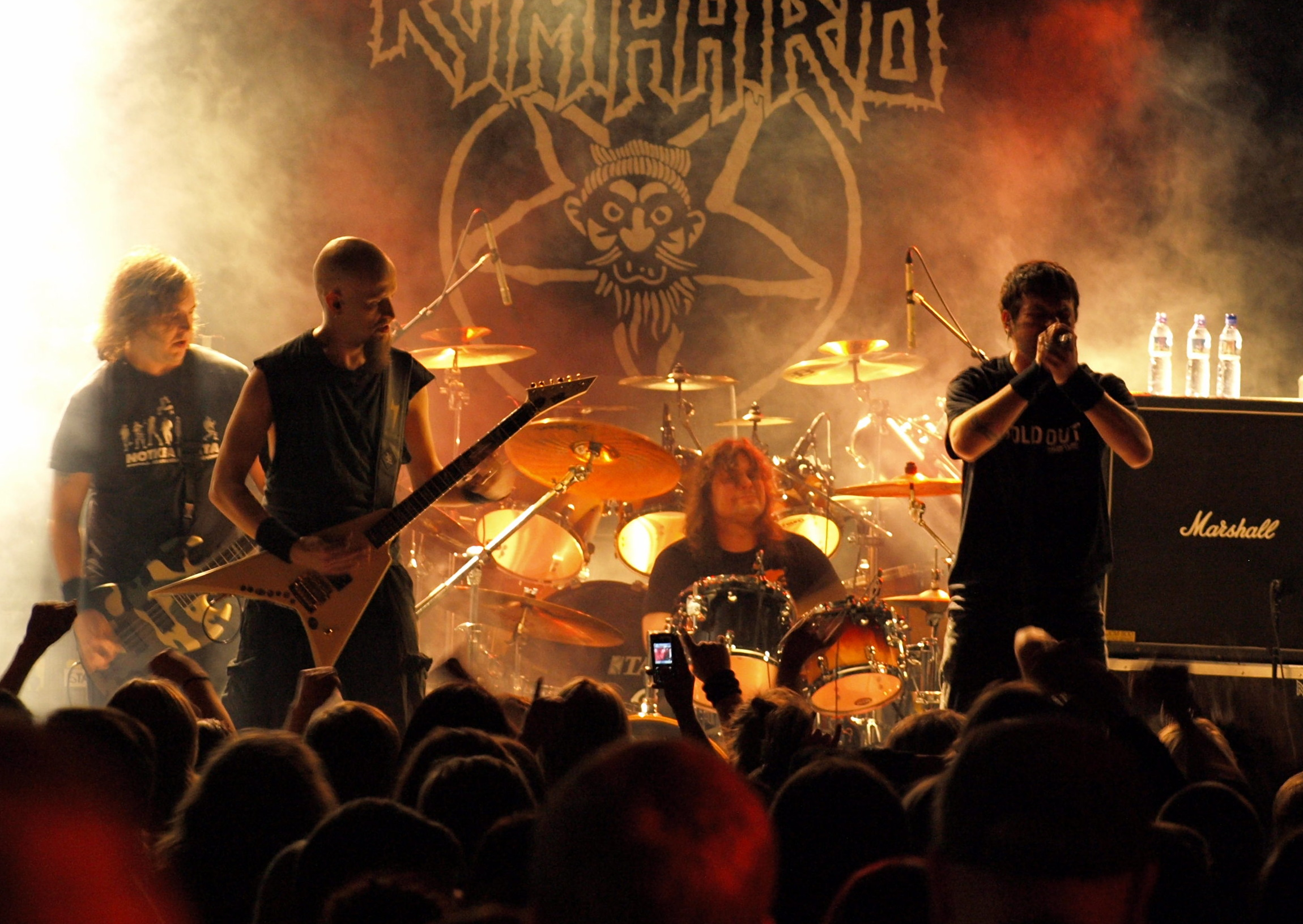 Finnish hardcore/thrash metal band Rytmihäiriö live at Nosturi, Helsinki